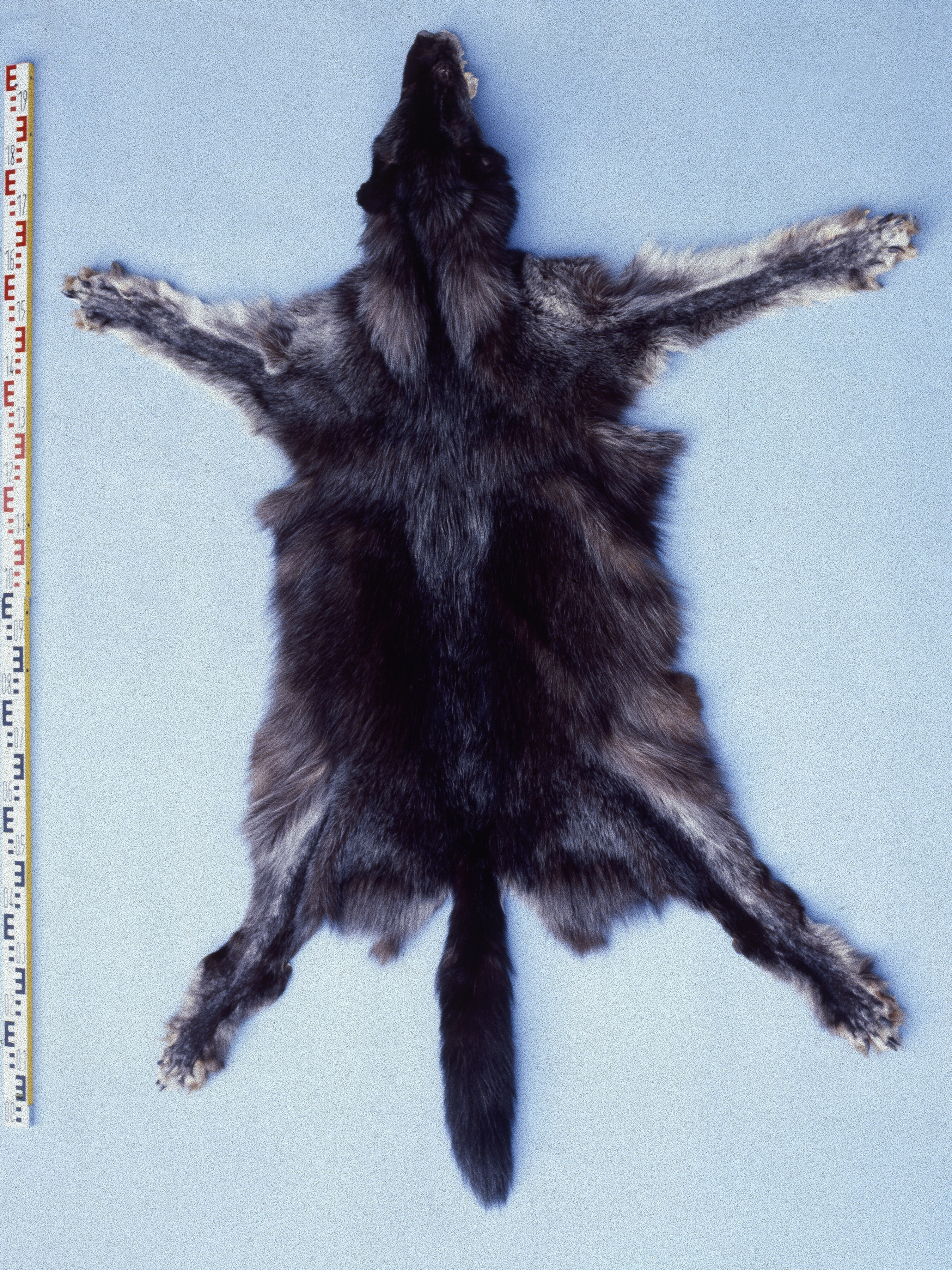 Gray Wolf fur skin (Canis lupus), Mackenzie. Fur skin collection, Bundes-Pelzfachschule, Frankfurt/Main, Germany